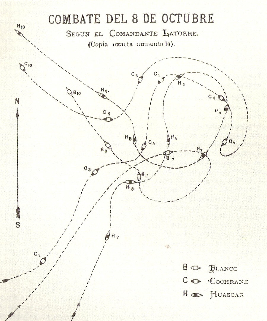 Sketch of the naval battle of Angamos. During the War of the Pacific, between Chile against Bolivia and Peru, the peruvian ironclad Huáscar fought against the chilean ironclads Cochrane and Blanco Encalada and the chilean gunboat Covadonga on 8 october of 1879.